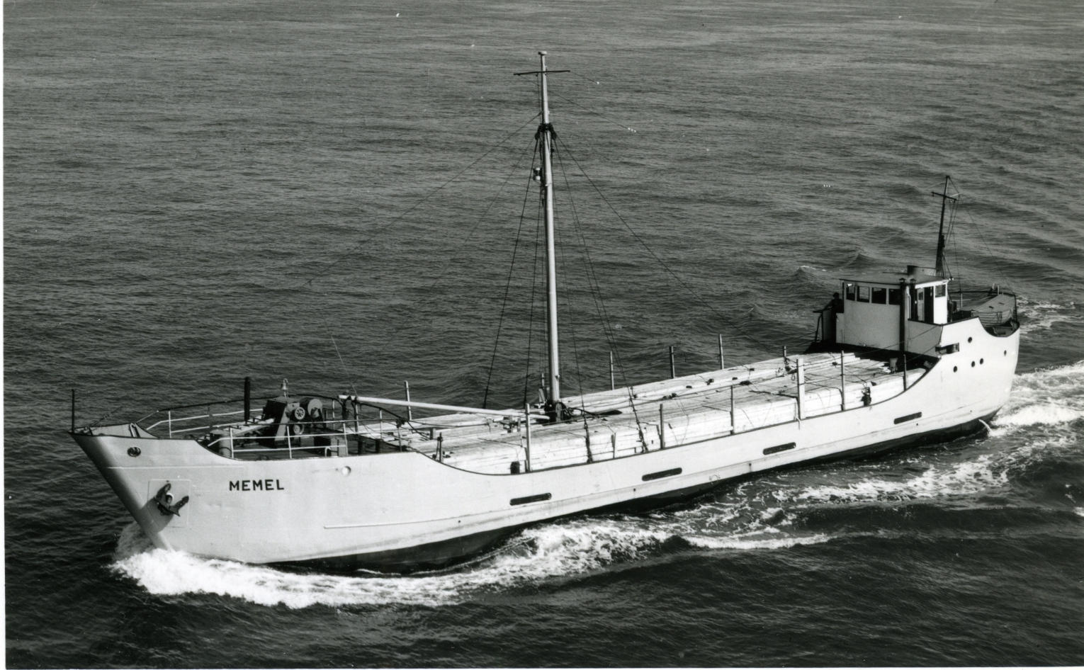 General cargo ship MEMEL built at unknown shipyard in Wilhelmshaven in 1924 as motor pram K. K. 5 for Reichsmarine (German Navy), 06-03-1948 till 08-06-1948 converted to coastal motor vessel ANTON at Yacht- & Bootswerft Burmester, Bremen-Burg, for Frachtverkehr Früchtenicht & Co. Bremen, 30-10-1948 renamed MEMEL (KR Helmut Bastian, Bremen), 1952 lengthened in Wilhelmshaven, 30-03-1954 sold to Alfred Berger, Oldenburg, 19-08-1961 KATE SONNENBORG (J. T. Nielsen, Svendborg), 10-10-1963 TUTTE KJEP (B. K. Hansen, Copenhagen), 20-05-1968 sold in auction (A. L. O. Dahl, Copenhagen) and renamed BAHAMA SUN, 01-07-1968 to Bahamian Transport & Freight Service Ltd., Nassau/Bahamas, further remain unknown; collection J. Robert Boman (1926 - 2002) owned by Sjöhistoriska museet.